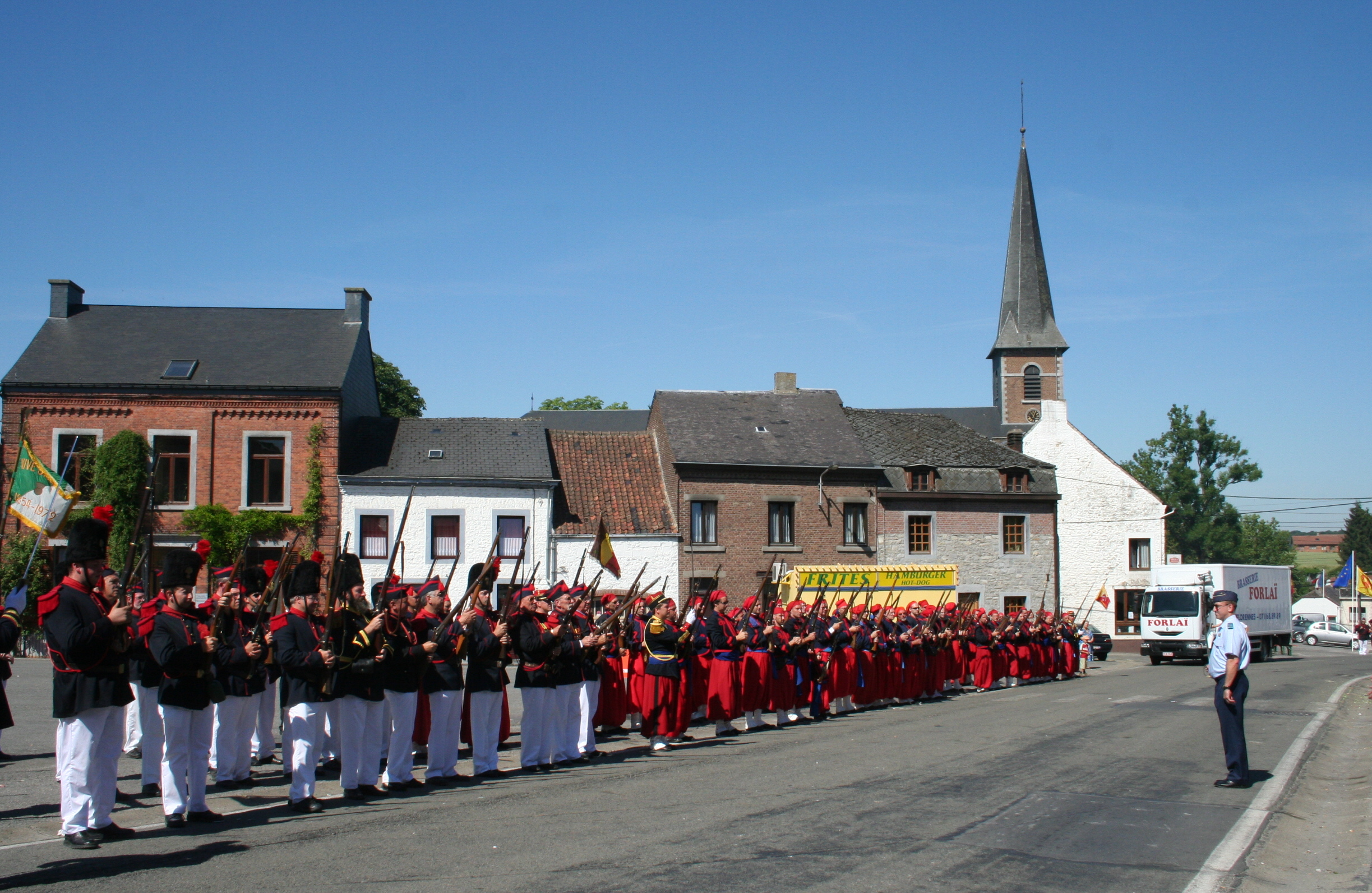 Morialmé (Belgium), gathering of the Platoons of the St. Peter procession .